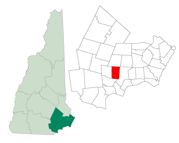 Map of a municipality in Rockingham County, New Hampshire